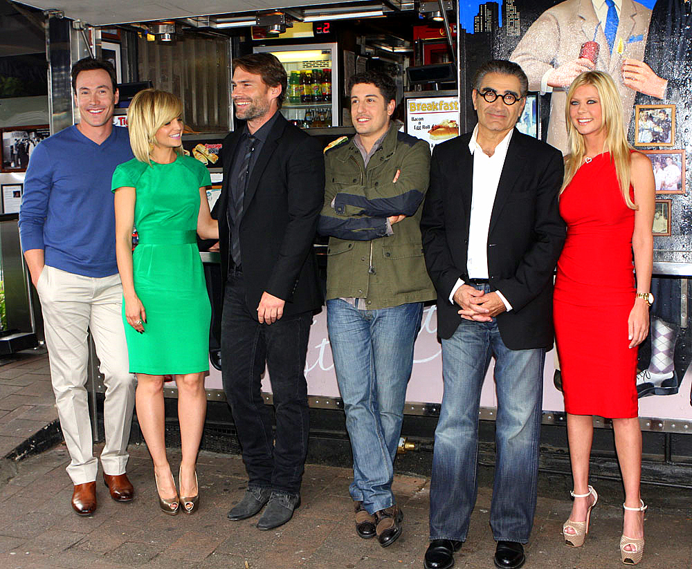 American Pie Reunion Cast, Harry's Cafe de Wheels Sydney 2012.